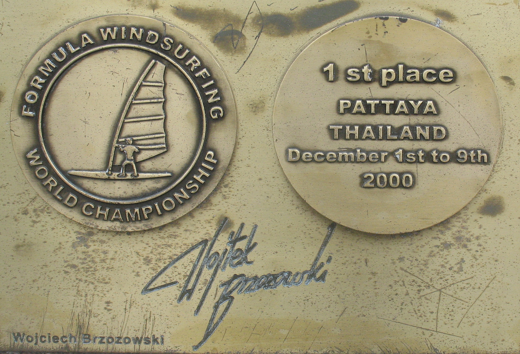 Wojciech Brzozowski medal & autograph in Avenue of Sport Stars Dziwnów.